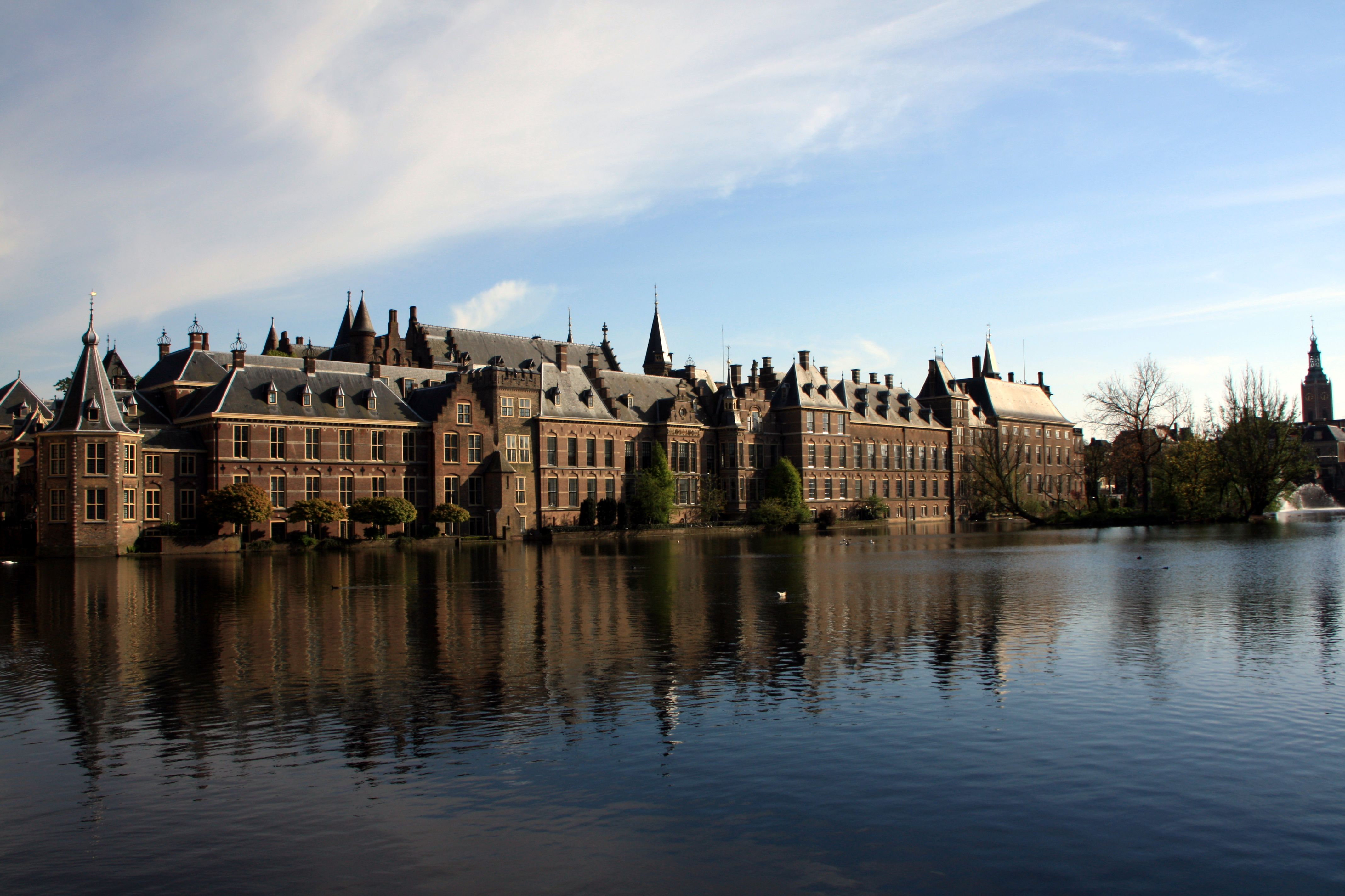 Dutch parliament, The Hague